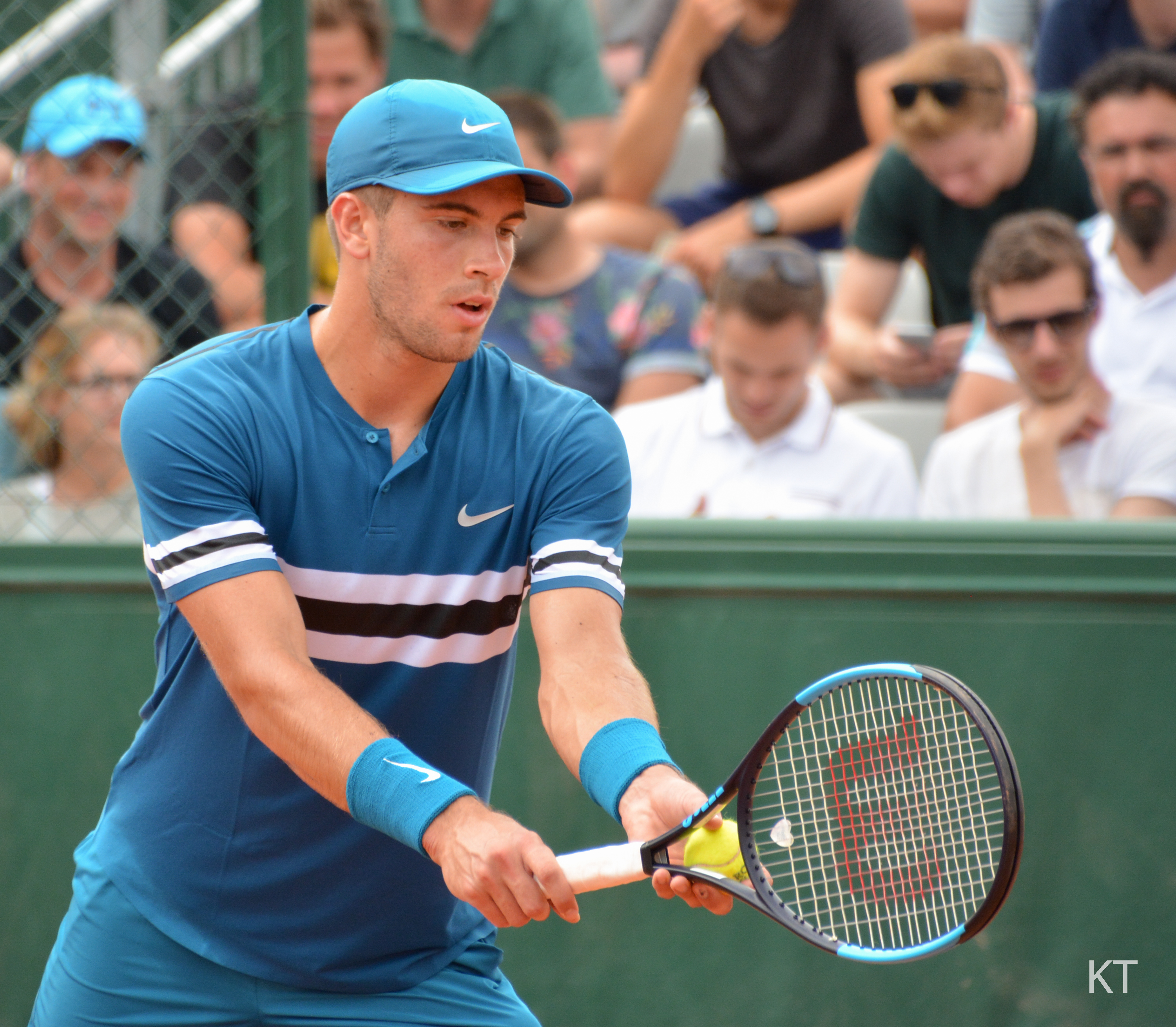 On the new court 18. Day 2 of Roland Garros 2018.